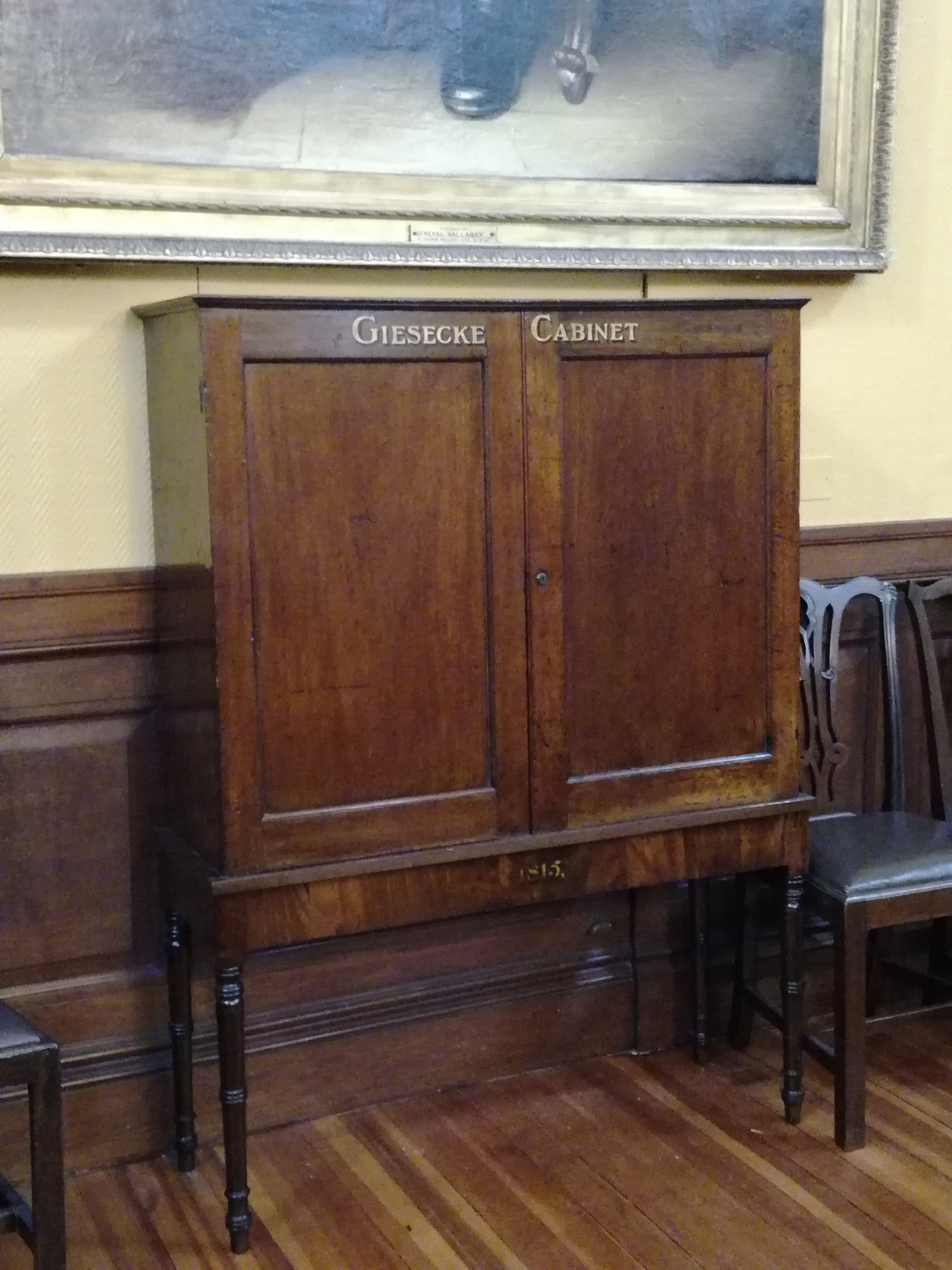 The cabinet which once contained the collections of Karl Ludwig Giesecke, in the Royal Dublin Society.